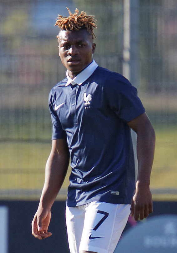 Allan Saint-Maximin playing for France U-17 side in 2014.